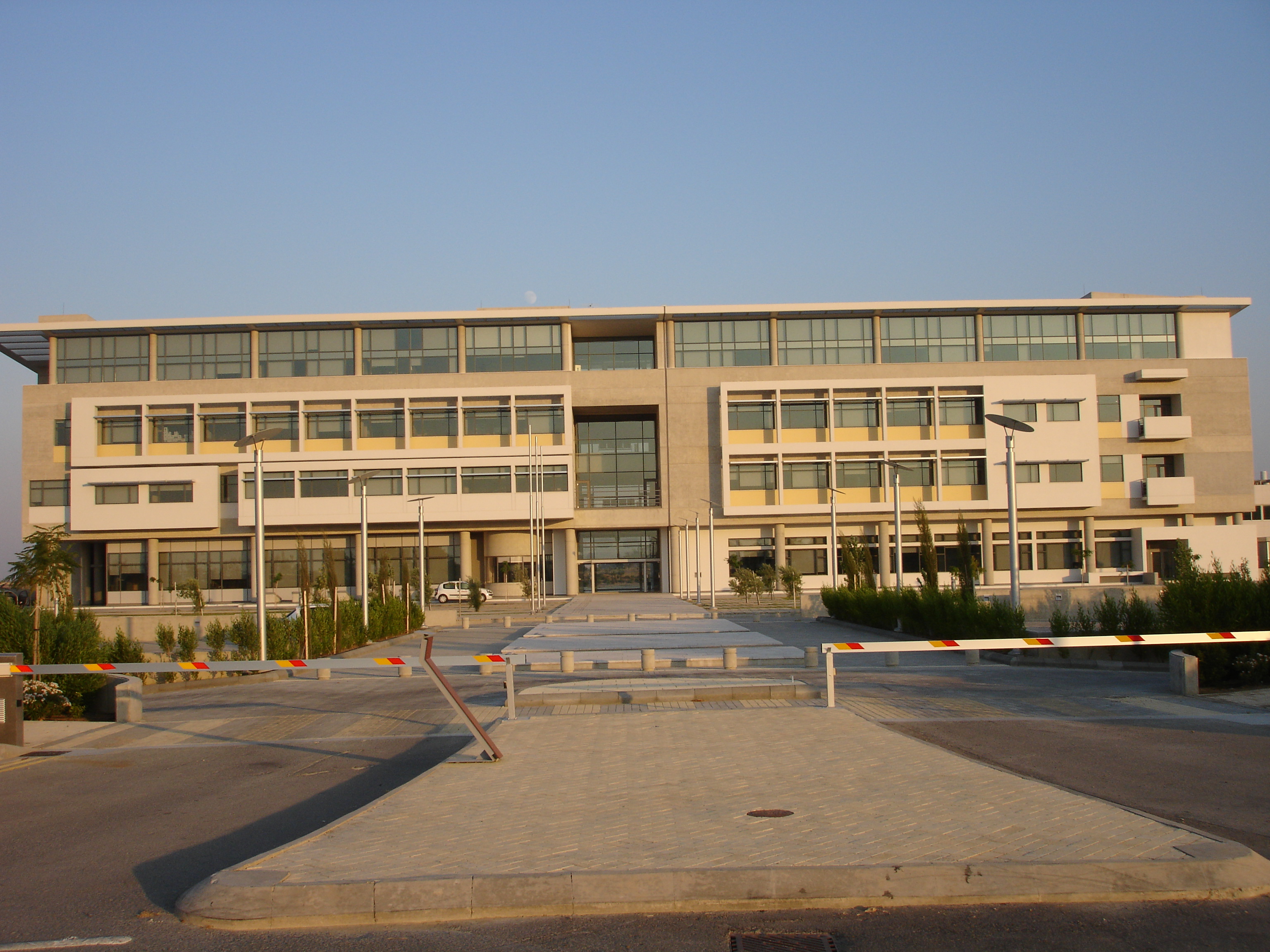 building at the university campus